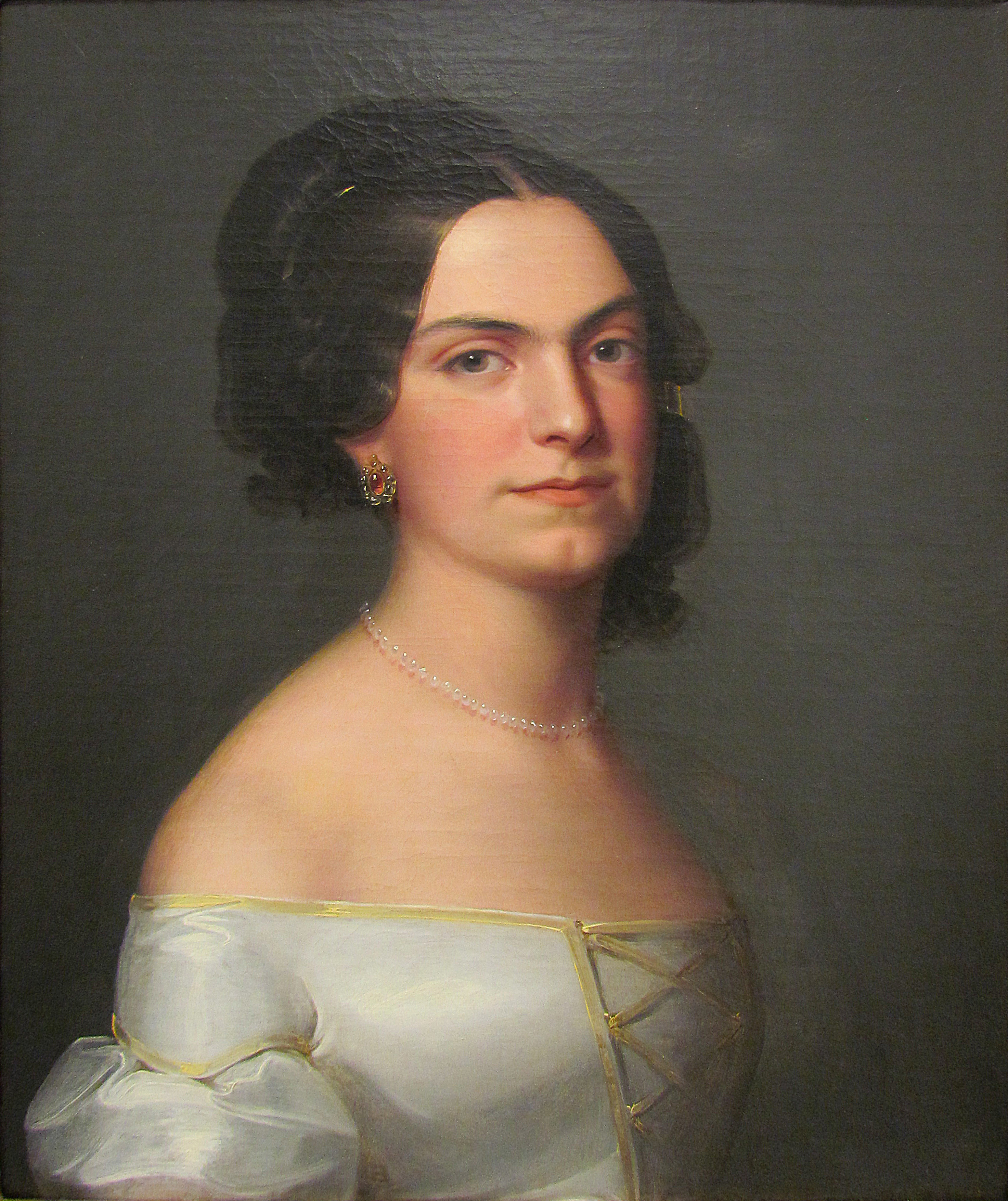 Konstantin Danil, portrait of Mme Tetesi, 1835-40